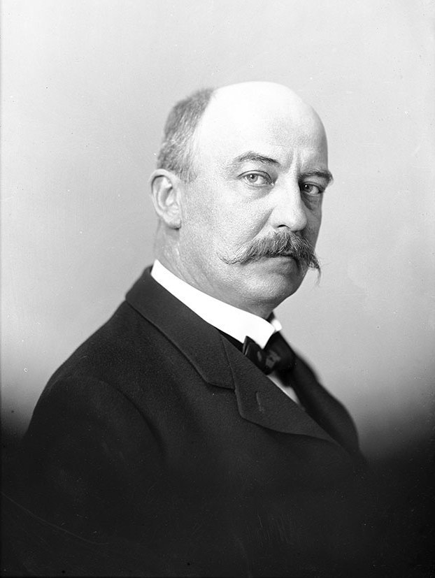 Cropped image of Gabriel Narutowicz, Switzerland, 1915